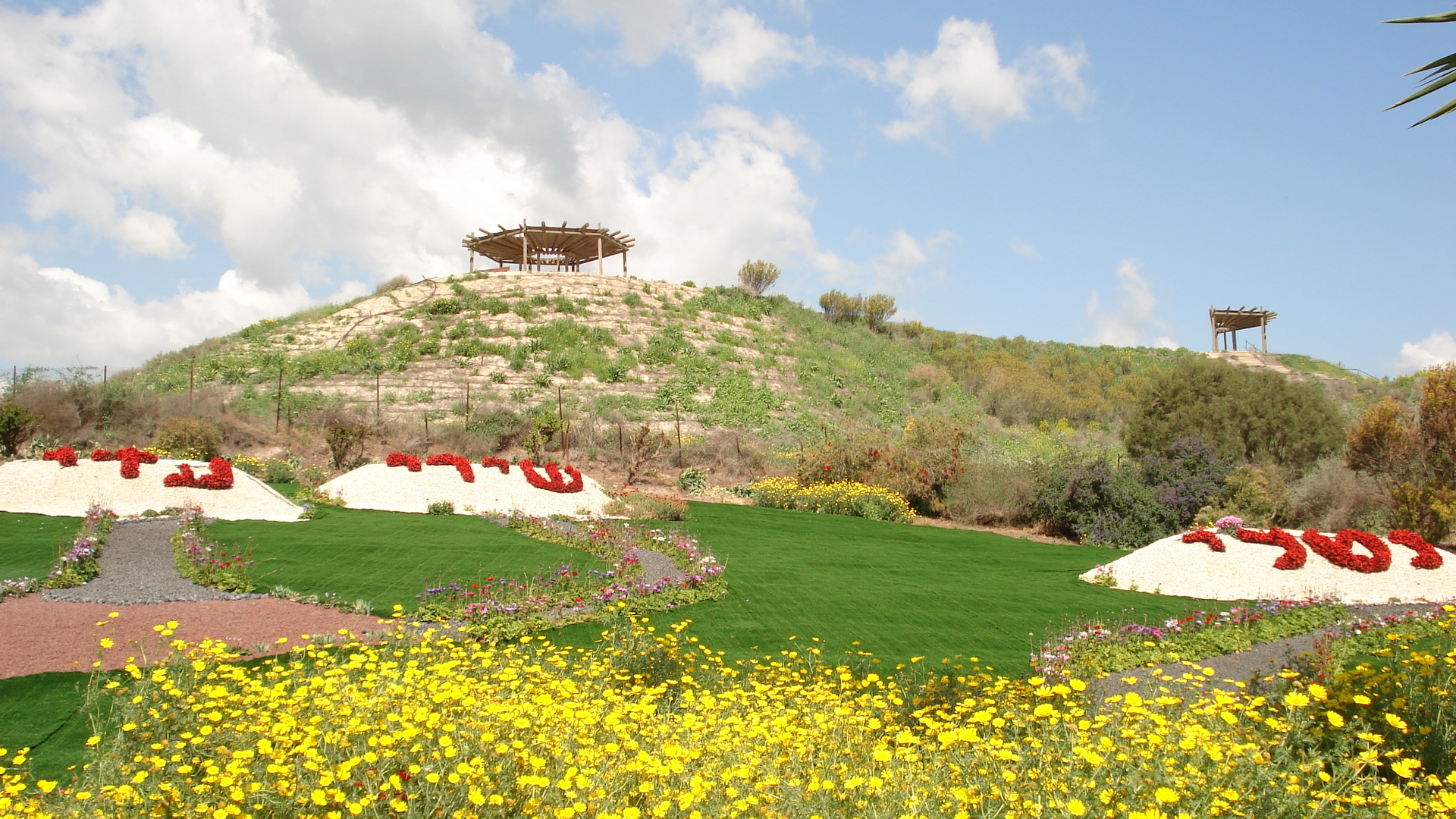 In 1997 a Jordanian soldier killed daughters PS AMIT Beit Shemesh, Orna Shimoni was on the day of the murder, promised Lhnzihm flowers out of nowhere and established the "harvested flower hill\" it maintains and creates daily.